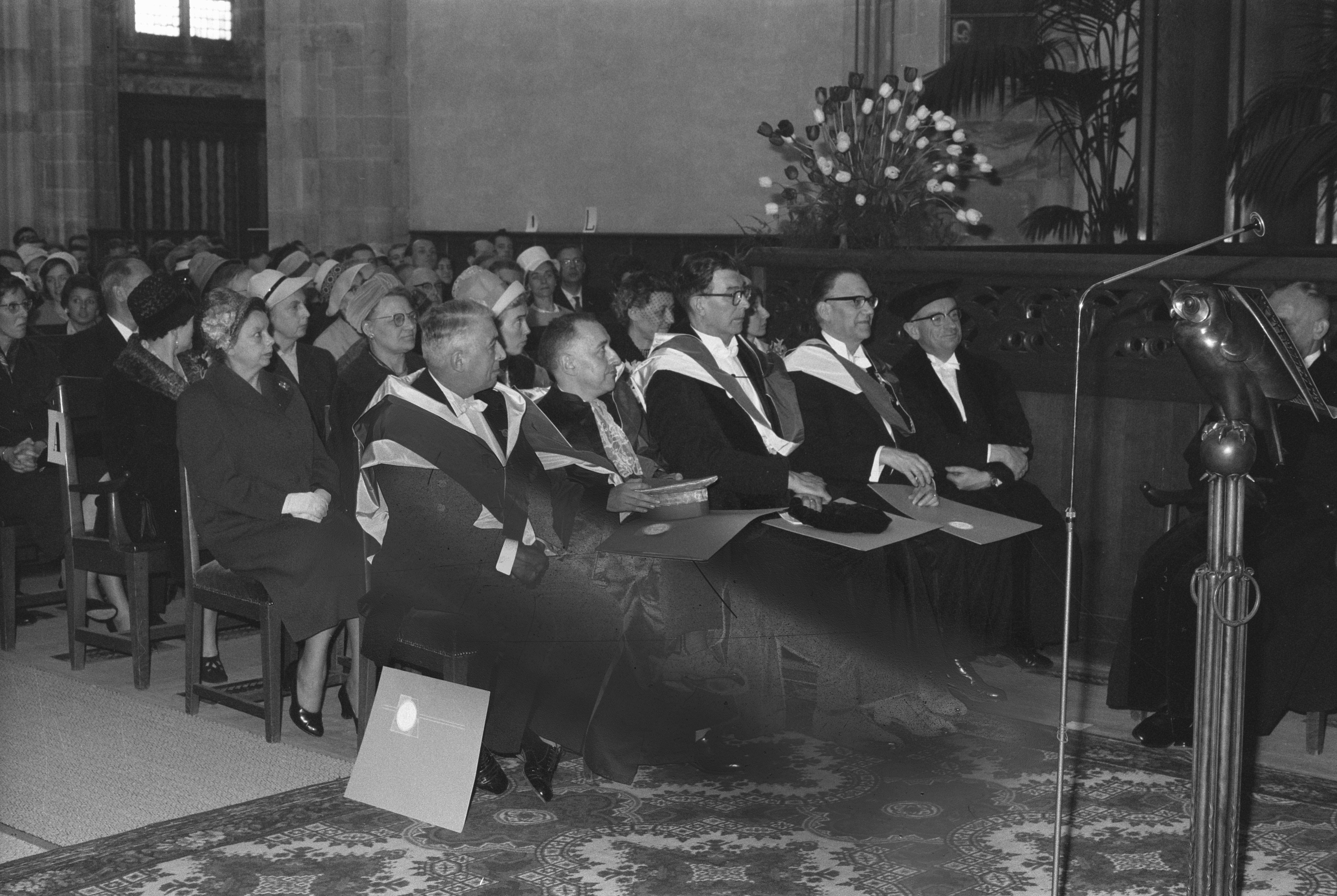 Honorary doctorates Utrecht University (the Netherlands), 12 April 1961. Left to right front row: André Parrot, Jean Carbonnier, Hans Van Werveke, Gerard Knuvelder and an unidentified person (possibly rector Henri Fischer).